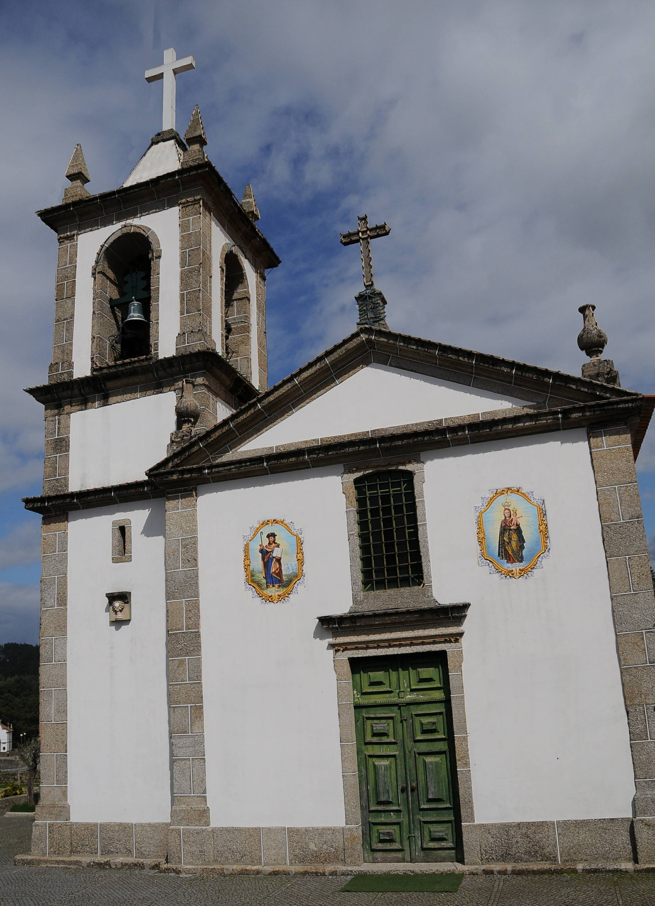 Priscos Church, in Braga, Portugal